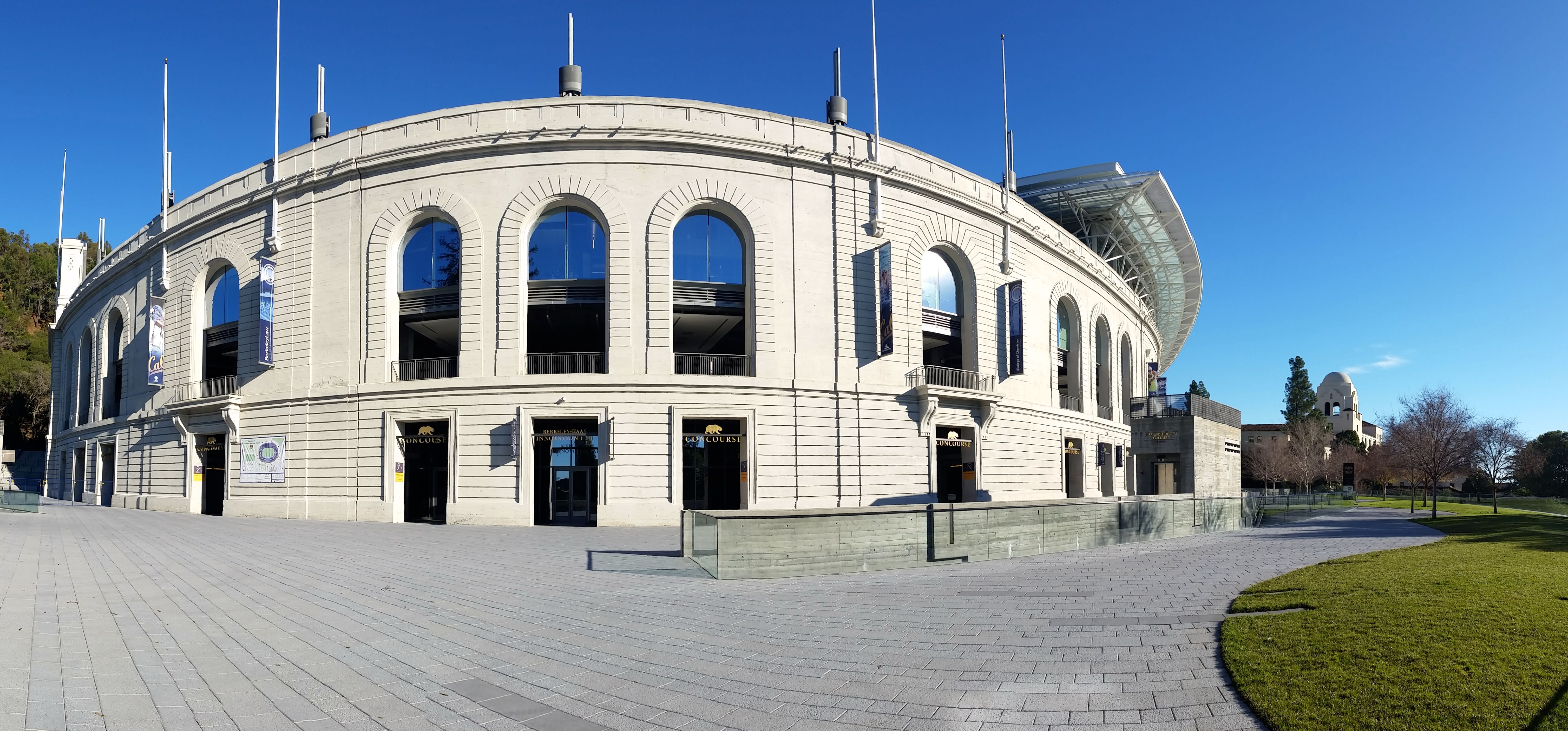 Panoramic image of the University of California, Berkeley Memorial stadium. Neoclassical architecture, modeled after the Colosseum in Rome.